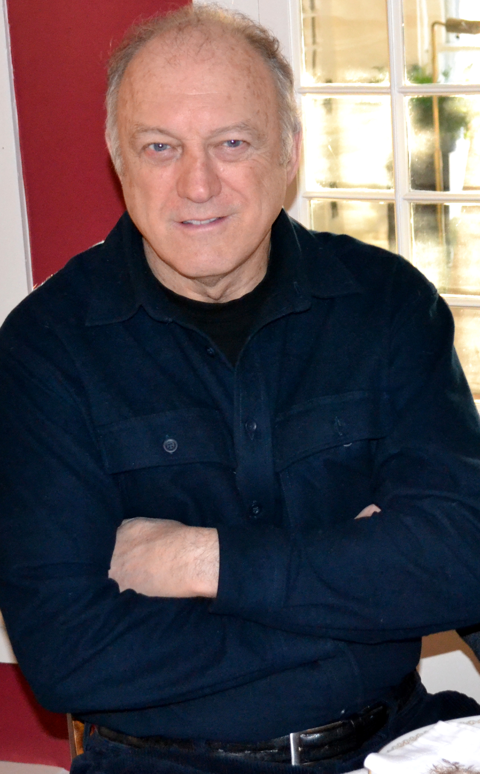 John Doman Actor 2013